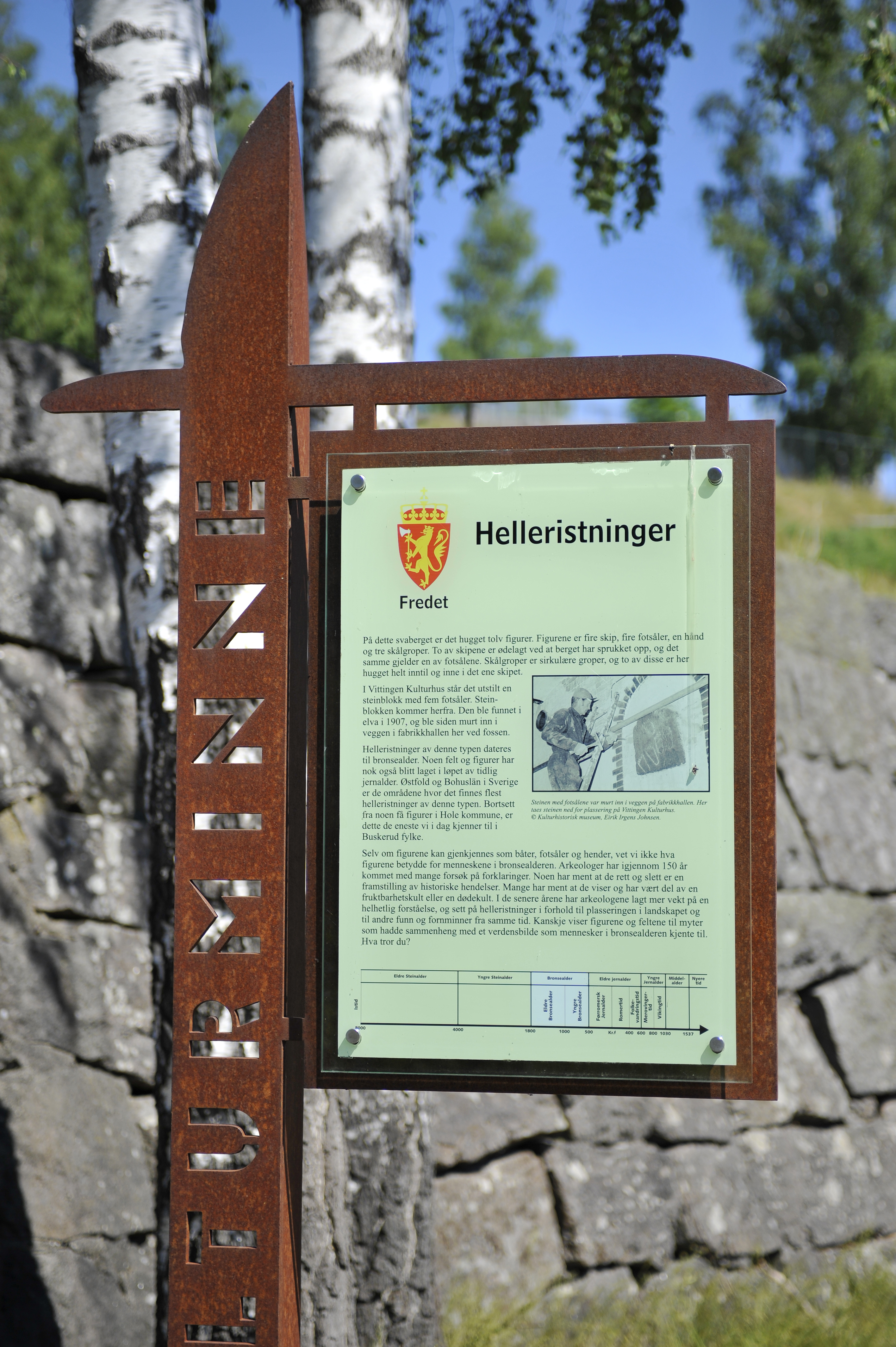 Kulturminne